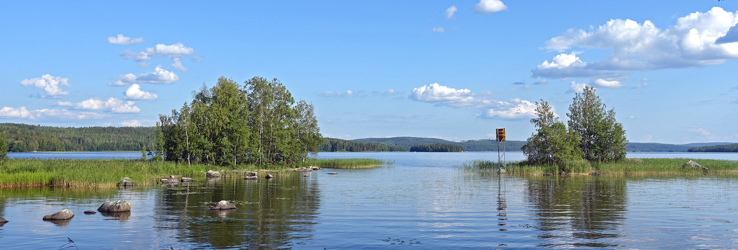 The lake Päijänne, view from Nenäinniemi, Jyväskylä.